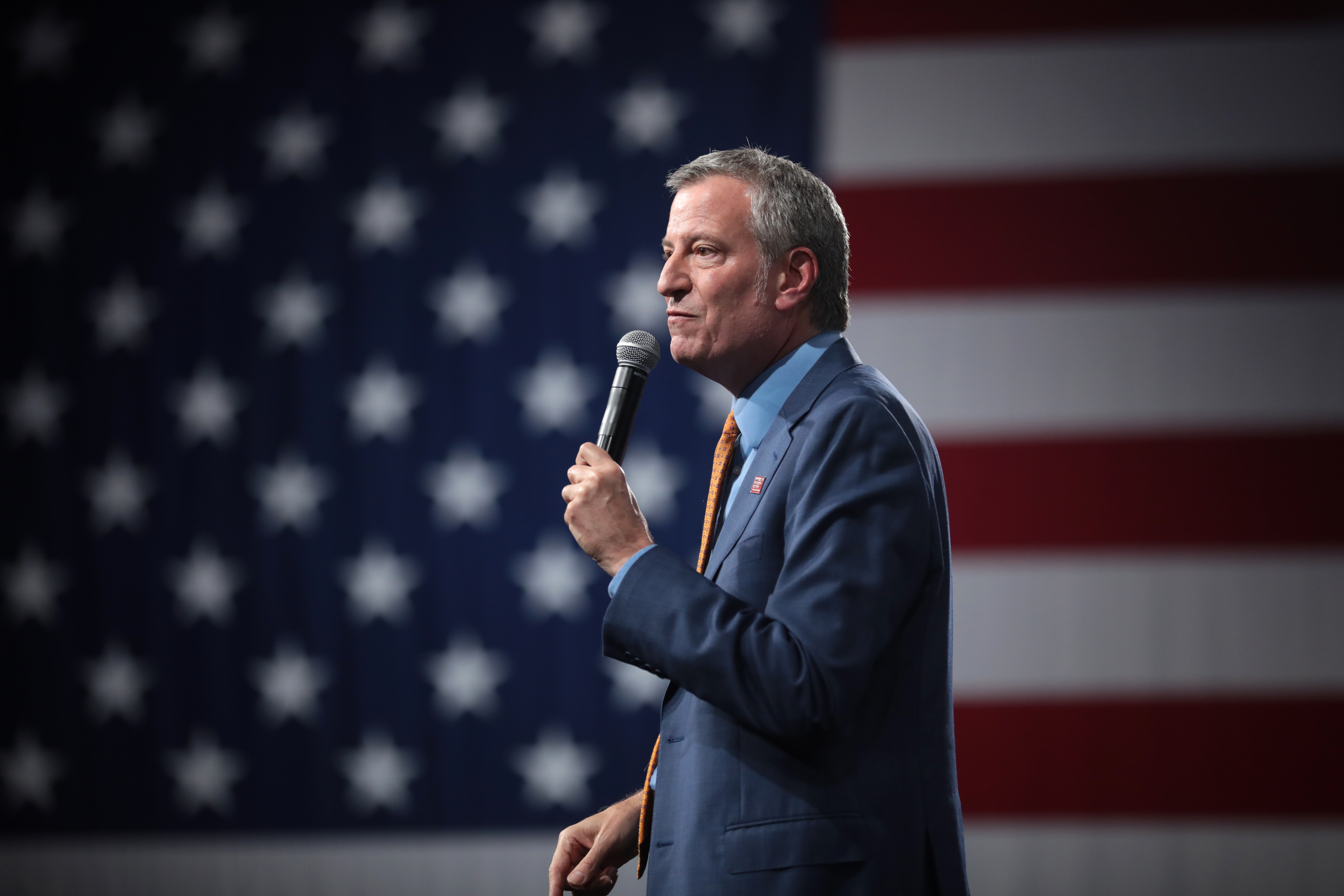 Mayor Bill de Blasio speaking with attendees at the Presidential Gun Sense Forum hosted by Everytown for Gun Safety and Moms Demand Action at the Iowa Events Center in Des Moines, Iowa.